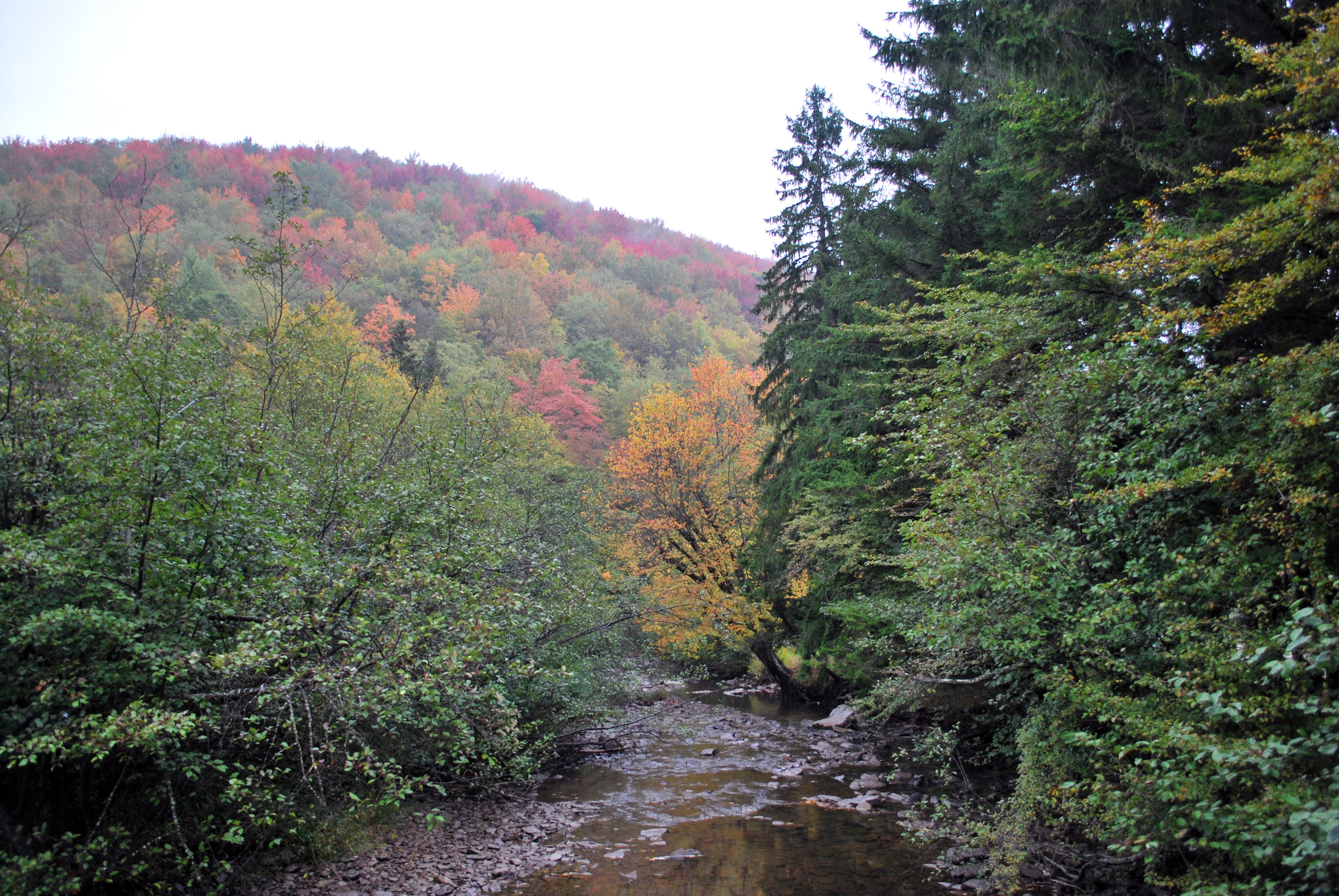 Laurel Fork (Cheat River) from Randolph County Route 40 bridge in Randolph County, West Virginia.